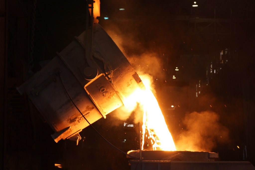 Ferrosilicon manufacturing at Fesil plant, Mo i Rana, Norway